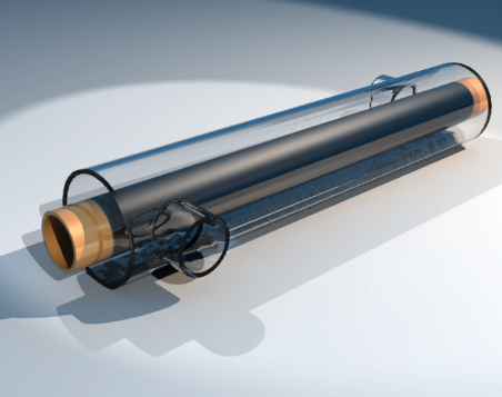 Simple tubular heat exchanger